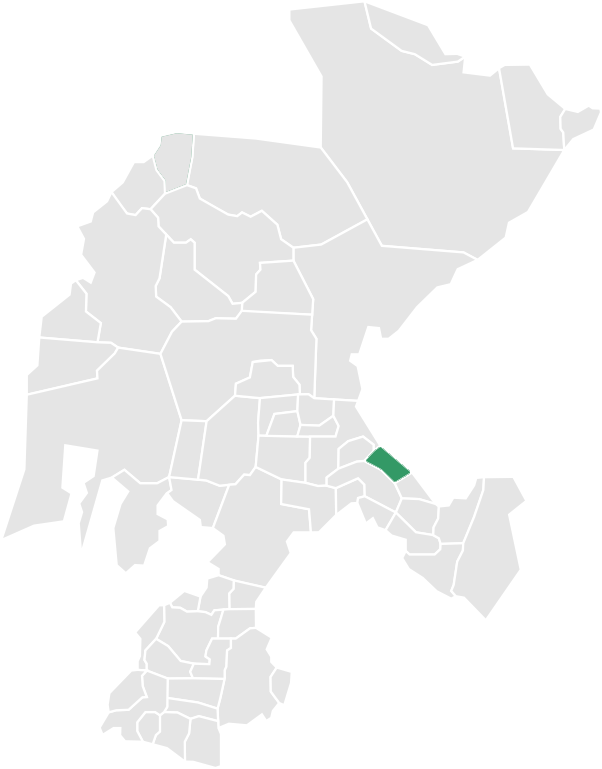 Map of the Municipality of General Pánfilo Natera in Zacatecas, México.